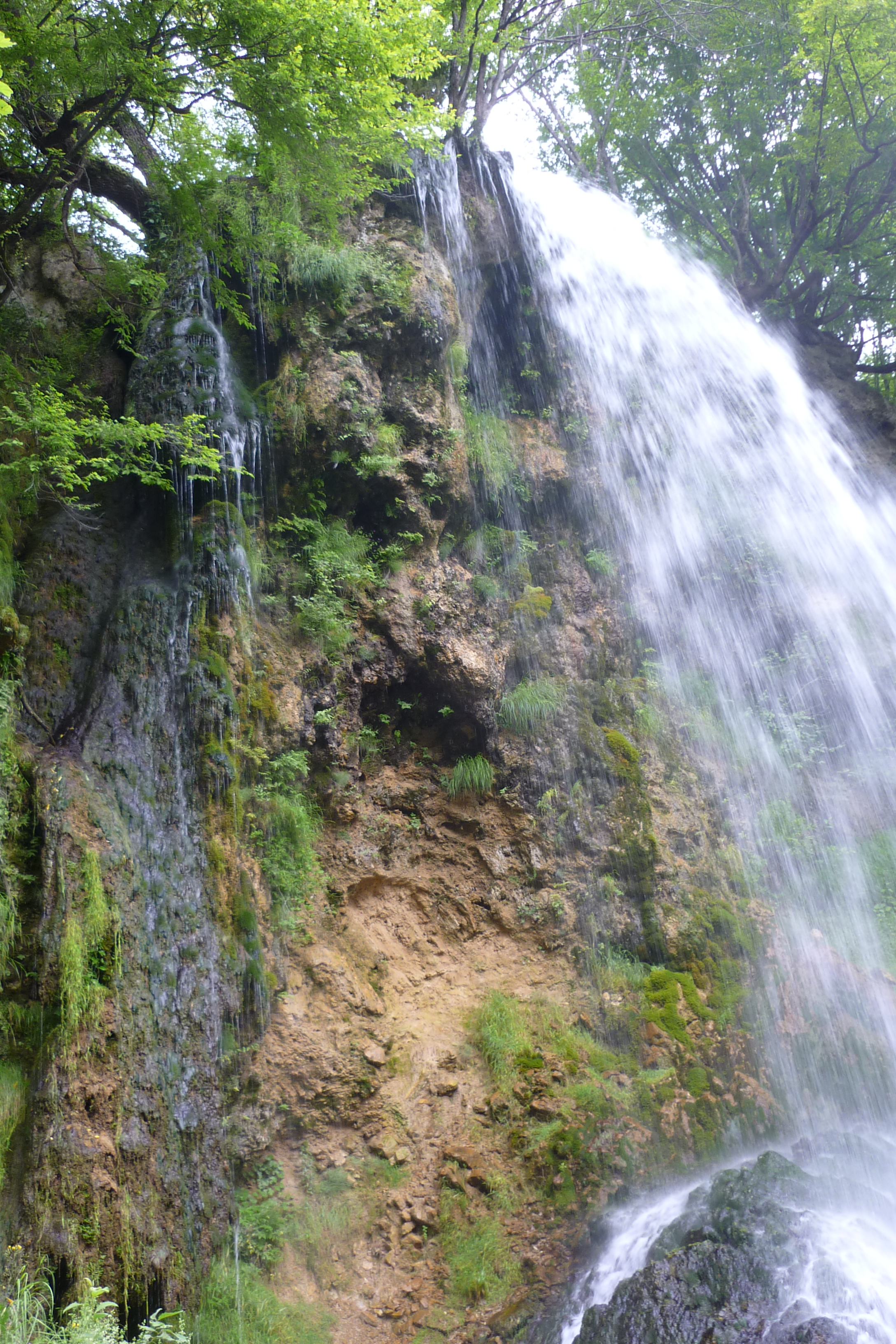 Gostilje Waterfalls